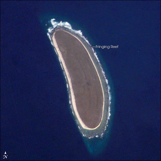 NASA astronaut image of Howland Island in the Pacific Ocean ISS Crew Earth Observations: ISS010-E-9287IdentificationMissionISS010 (Expedition 10)RollEFrame9287Country or Geographic NameHOWLAND ISLANDFeaturesHOWLAND ISLANDCenter Point Latitude0.8° NCenter Point Longitude-176.6° ECameraCamera Tilt41°Camera Focal Length800 mmCameraKodak DCS760C Electronic Still CameraFilm3060 x 2036 pixel CCD, RGBG array.QualityPercentage of Cloud Cover0-10%Nadir What is Nadir?Date2004-12-03Time18:55:48Nadir Point Latitude2.7° NNadir Point Longitude-174.6° ENadir to Photo Center DirectionSouthwestSun Azimuth115°Spacecraft Altitude192 nautical miles (356 km)Sun Elevation Angle19°Orbit Number2496Original image captionHowland Island is a United States possession located in the north Pacific between Australia and the Hawaiian Islands. Prior to 1890, organic nitrate (guano) was mined from the island by both the United States and the British. This tiny island (1.6 km2) is currently part of the U.S. National Wildlife Refuge system, and provides nesting areas and forage for a variety of birds and marine wildlife. The island is composed of coral fragments and is surrounded by an active fringing reef. White breakers encircling the island indicate the position of the reef. Astronauts aboard the International Space Station photograph numerous reefs around the world as part of a global mapping and monitoring program. High-resolution images such as this one are used to update geographic maps of reefs and islands, assess the health of reef ecosystems, and calculate bathymetry of the surrounding ocean bottom.